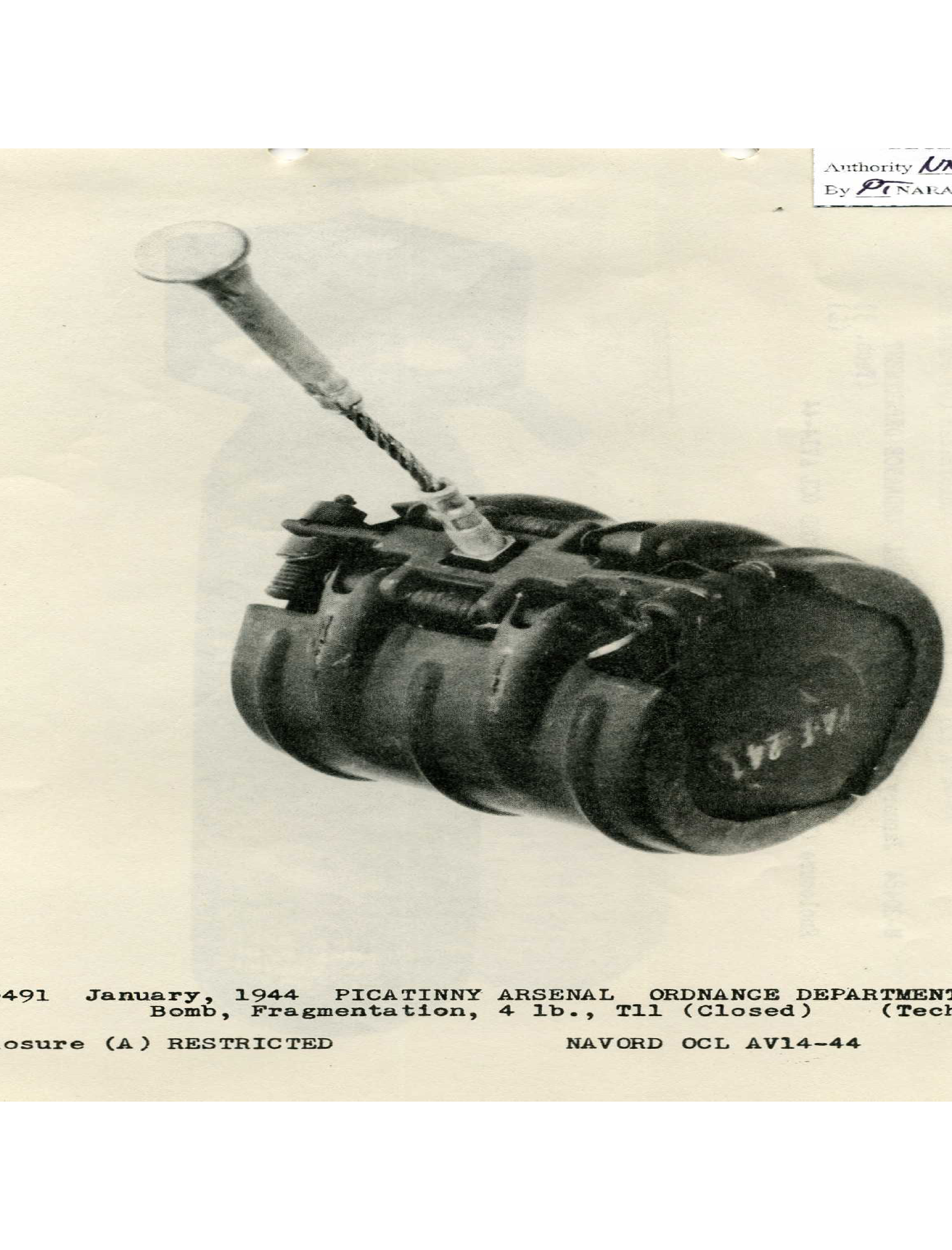 US M83 cluster bomblet show with its wings closed. The bomb, which was a direct copy of the German Butterfly Bomb, was used in the M29 and M28 cluster bombs.